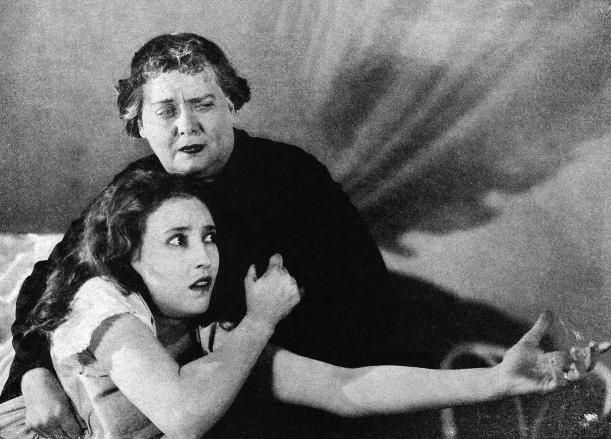 Bessie Love and Victory Bateman in Human Wreckage